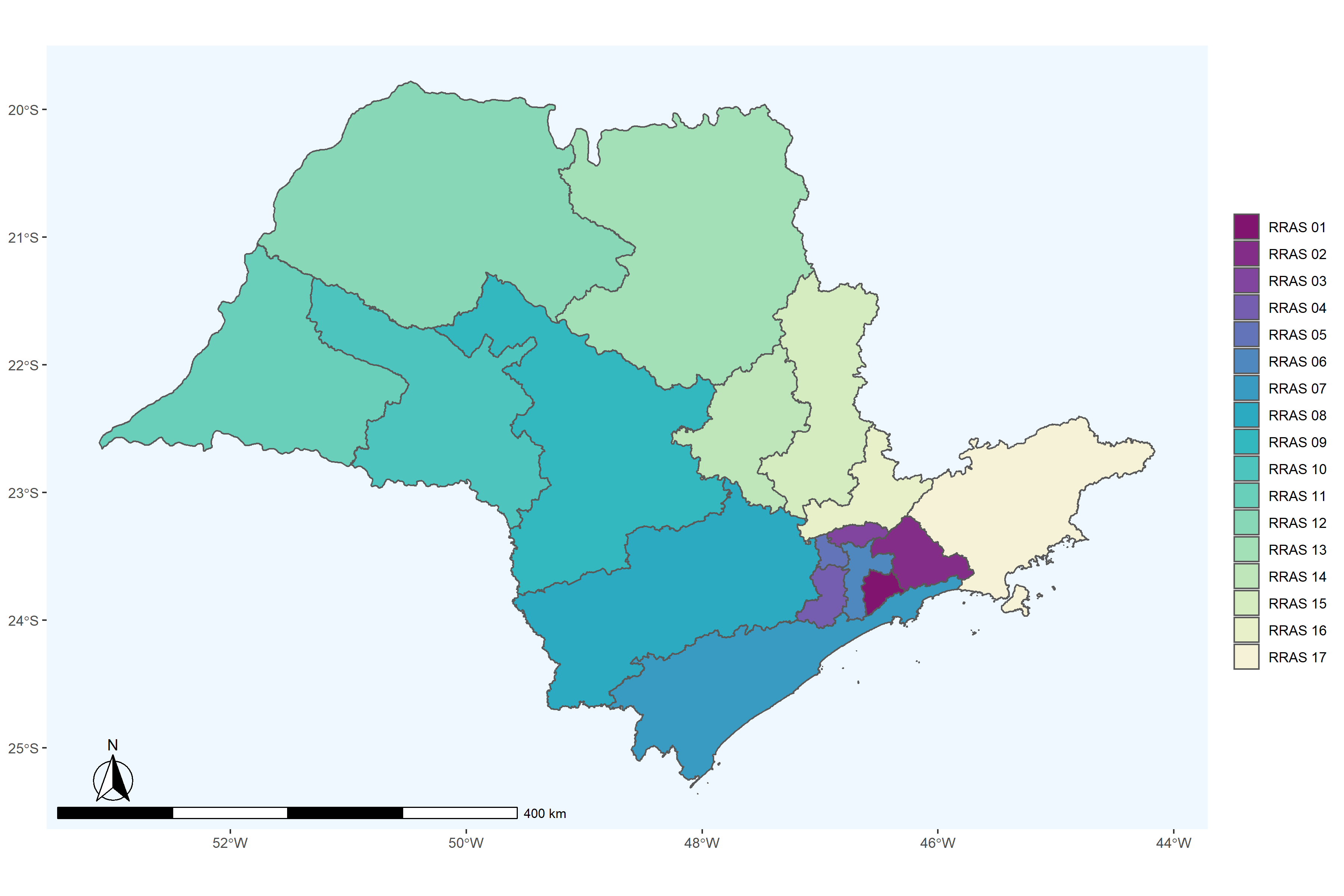 A map of the Regional Networks of Health Care in the State of São Paulo